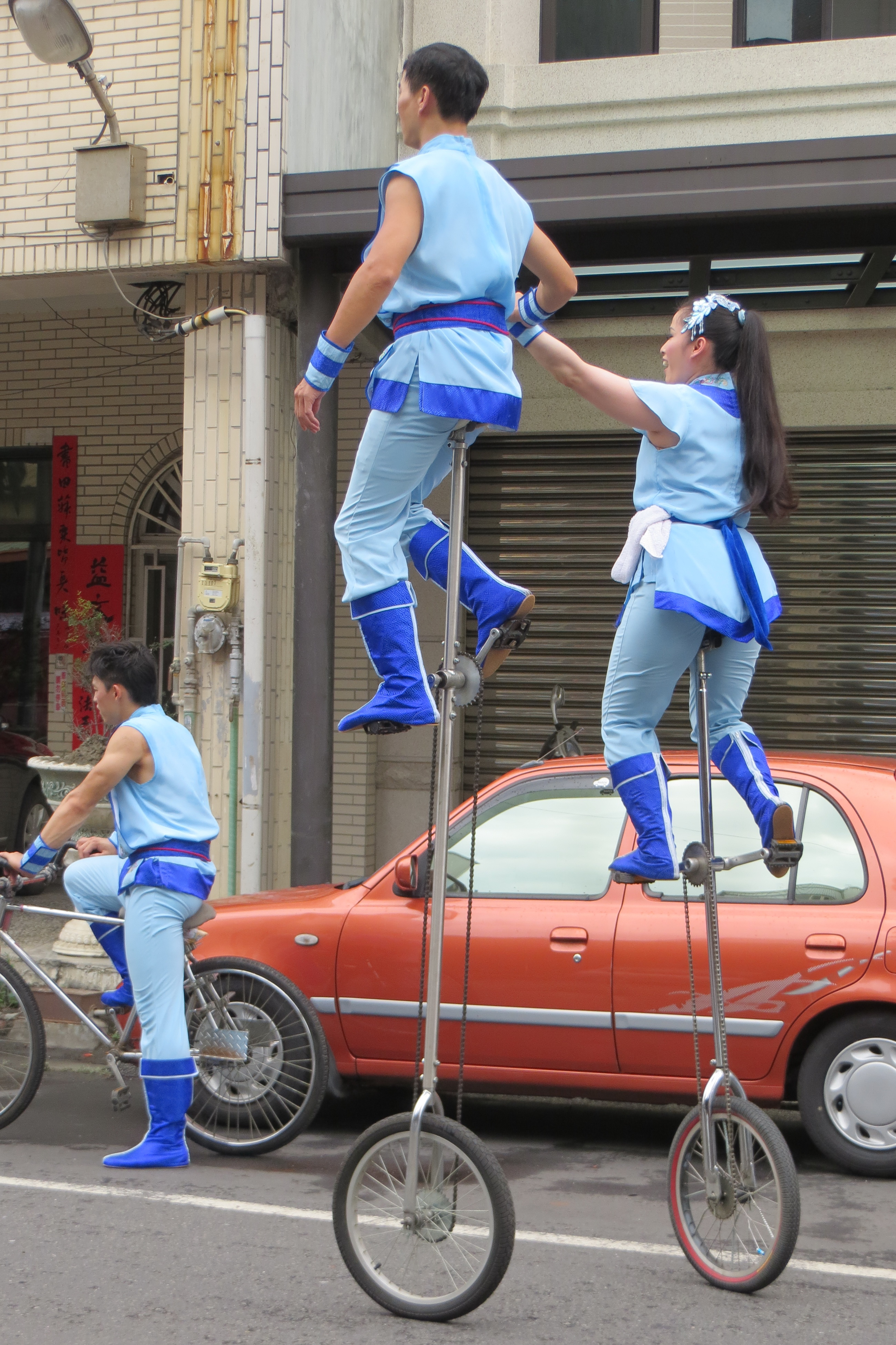 Two unicycles